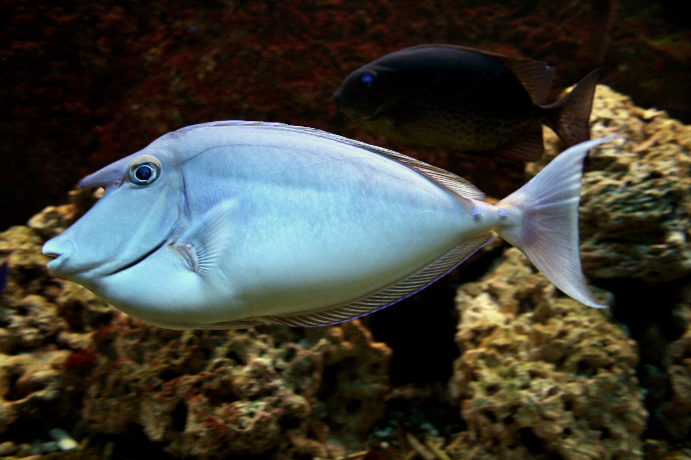 Fish Naso unicornis in Prague sea aquarium, Czech Republic